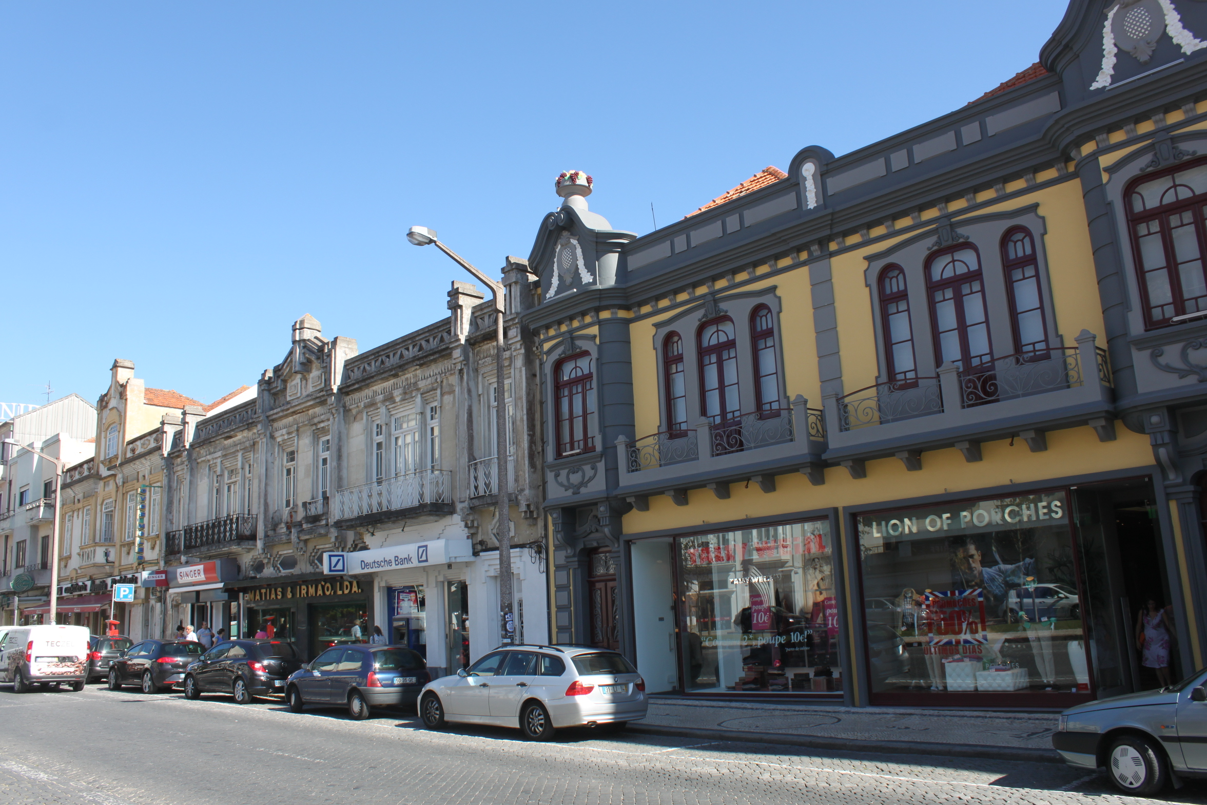 This file was uploaded for Wiki Loves Monuments in Portugal with the unique identifier 3728092.